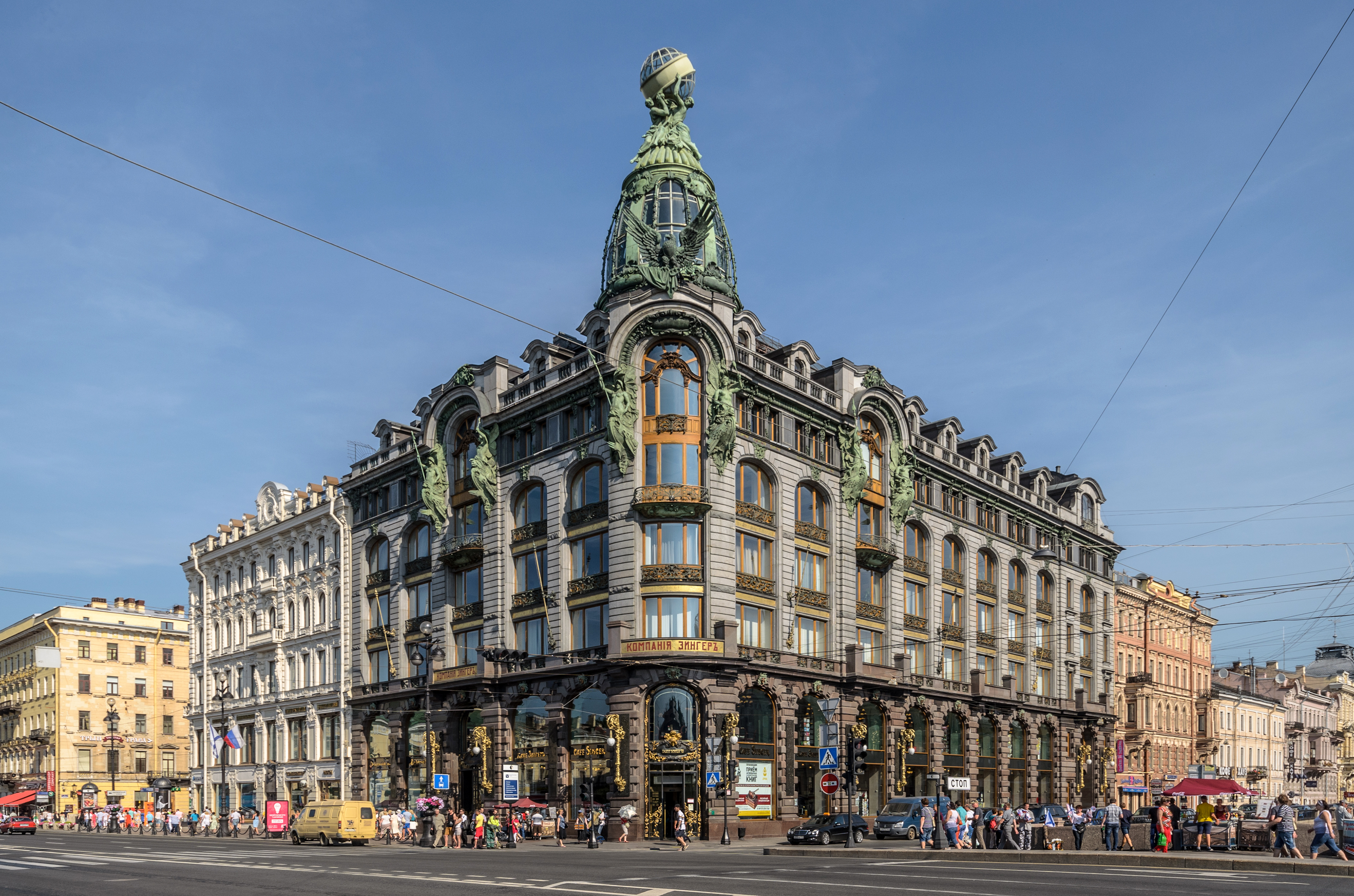 Singer Company House (Book House) at Nevsky Avenue in Saint Petersburg